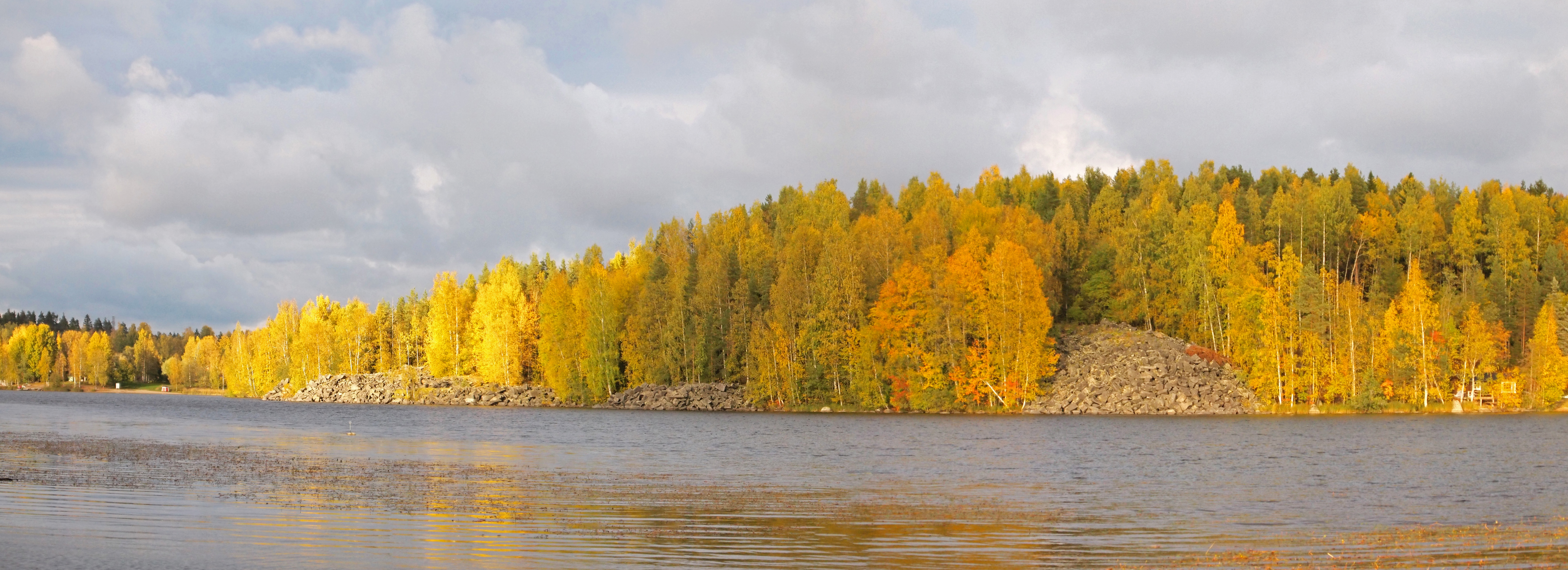 View from beach of Ristikivi district to Nenäinniemi district, Jyväskylä. The view is over the Päijänne lake. This photograph was taken with an Olympus E-PL1